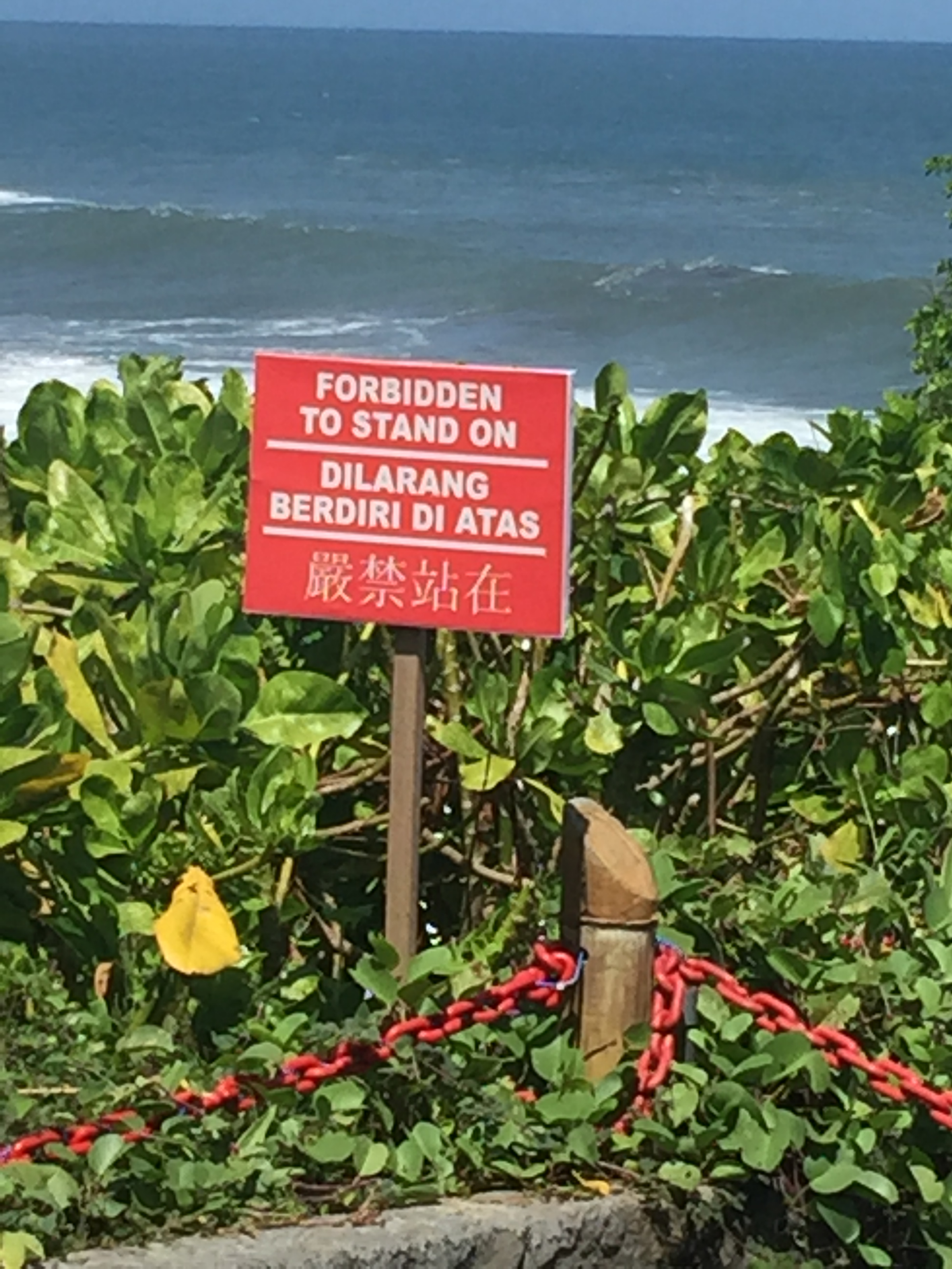 Machine translation from English "forbidden to stand on" to Traditional Chinese characters "嚴禁站在", which is a broken Chinese sentence that means "forbidden to stand at (missing object)", photographed in Bali, Indonesia.